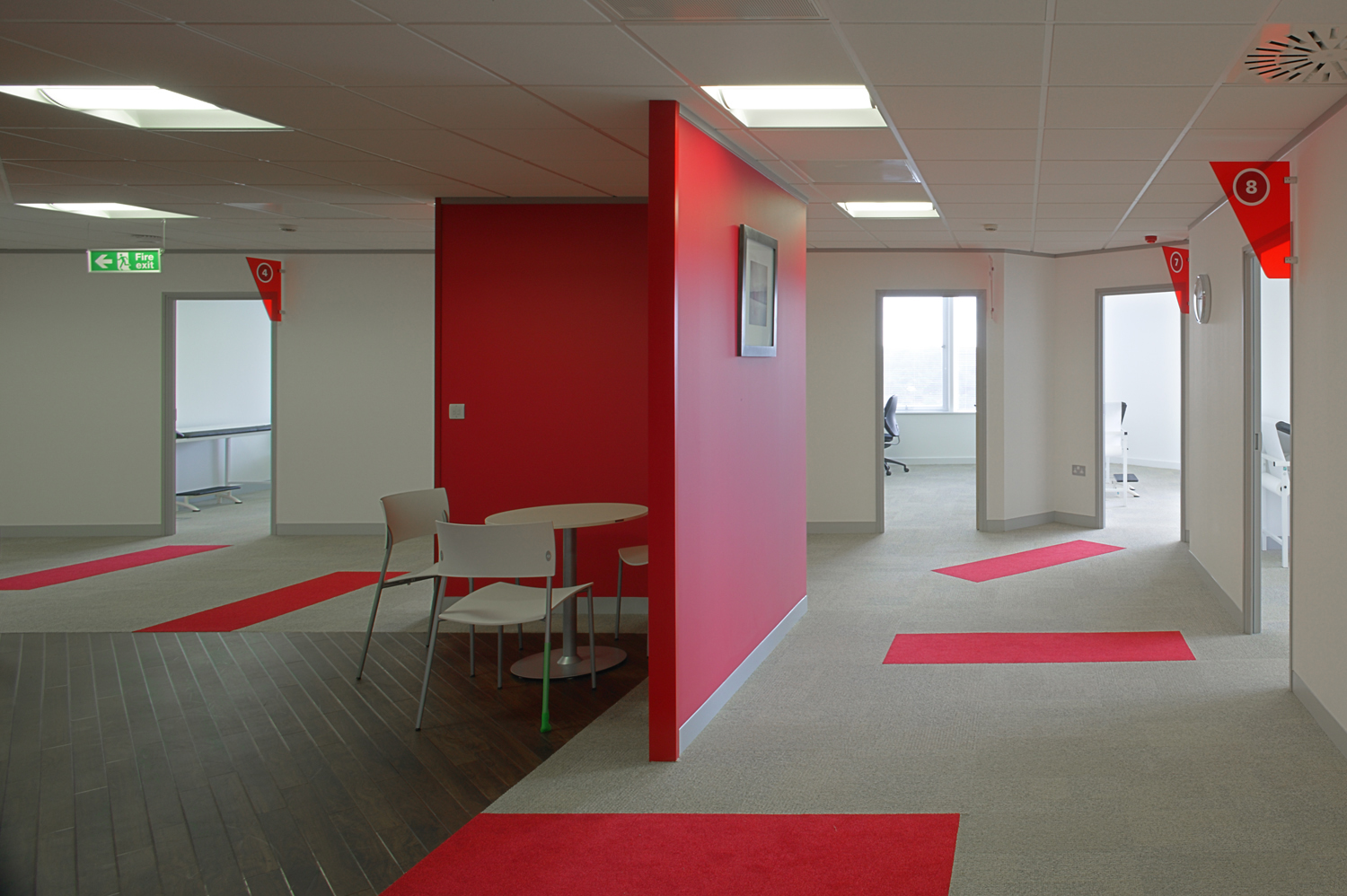 The Clinical Skills Assessment Centre (CSA) in Croydon.